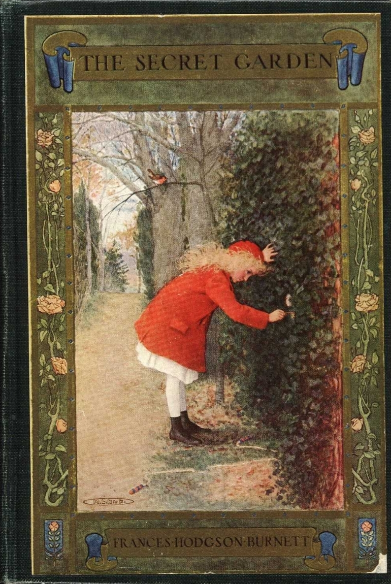 The Secret Garden book cover - Project Gutenberg eText 17396